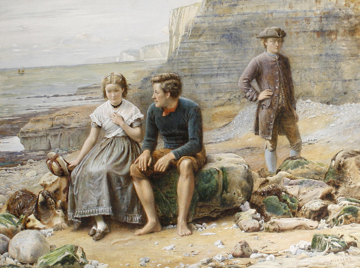 Enoch Arden, signed 'KILBURNE', watercolour heightened with bodycolour, 49 x 67 cm